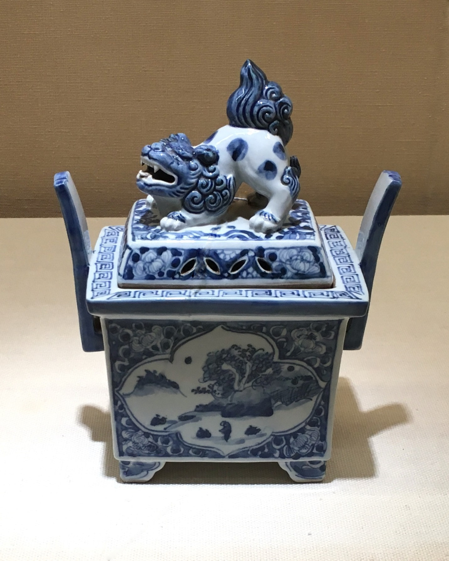 Incense burner, landscape design, blue underglaze. (Nanki) Otokoyama ware. Edo period, 19th century. Height: 19.3 cm Mouth Diameter: 9.7/7.2 cm Diameter: 16 cm